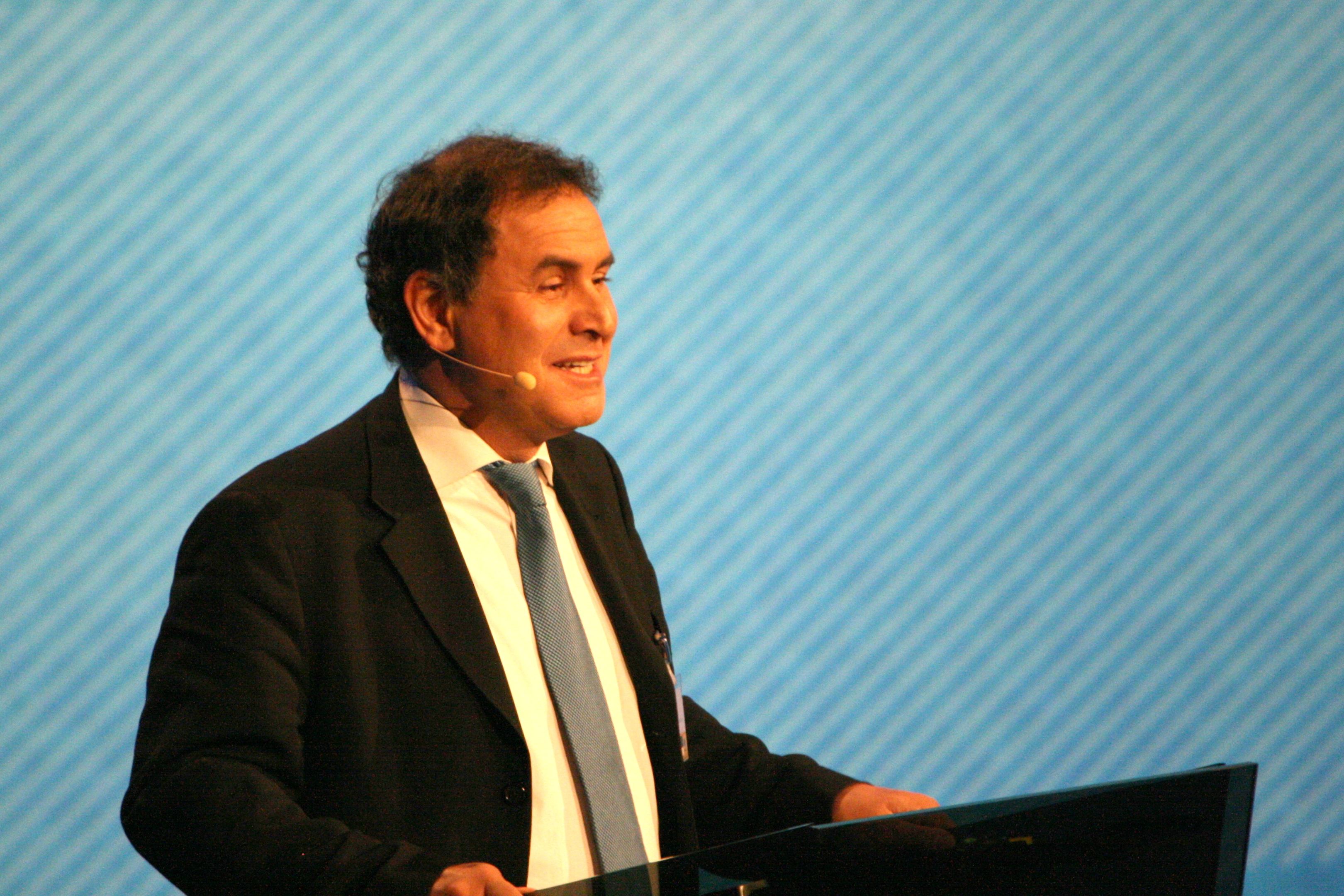 Nouriel Roubini, Turkish economist, professor of economics at the Stern School of Business, New York University. From the Confederation of Norwegian Enterprise conference, 2009.